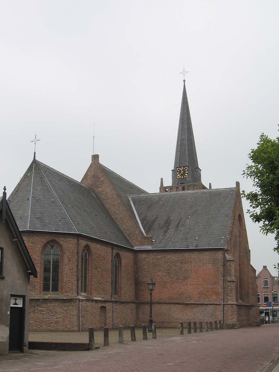 The Dutch Reformed church of Lexmond, Holland, The Netherlands.